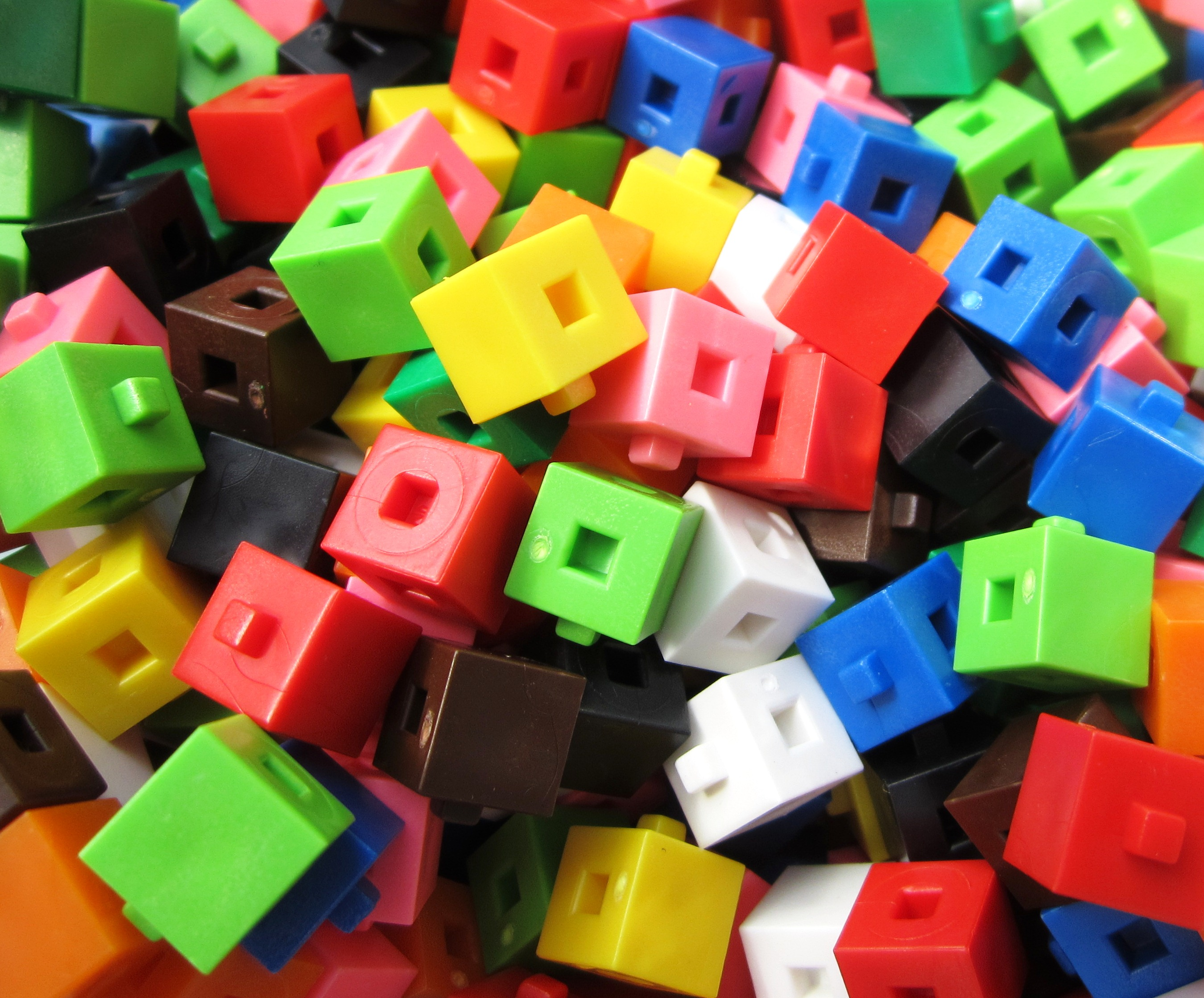 Linking plastic cubes - cm cubes - used in teaching maths